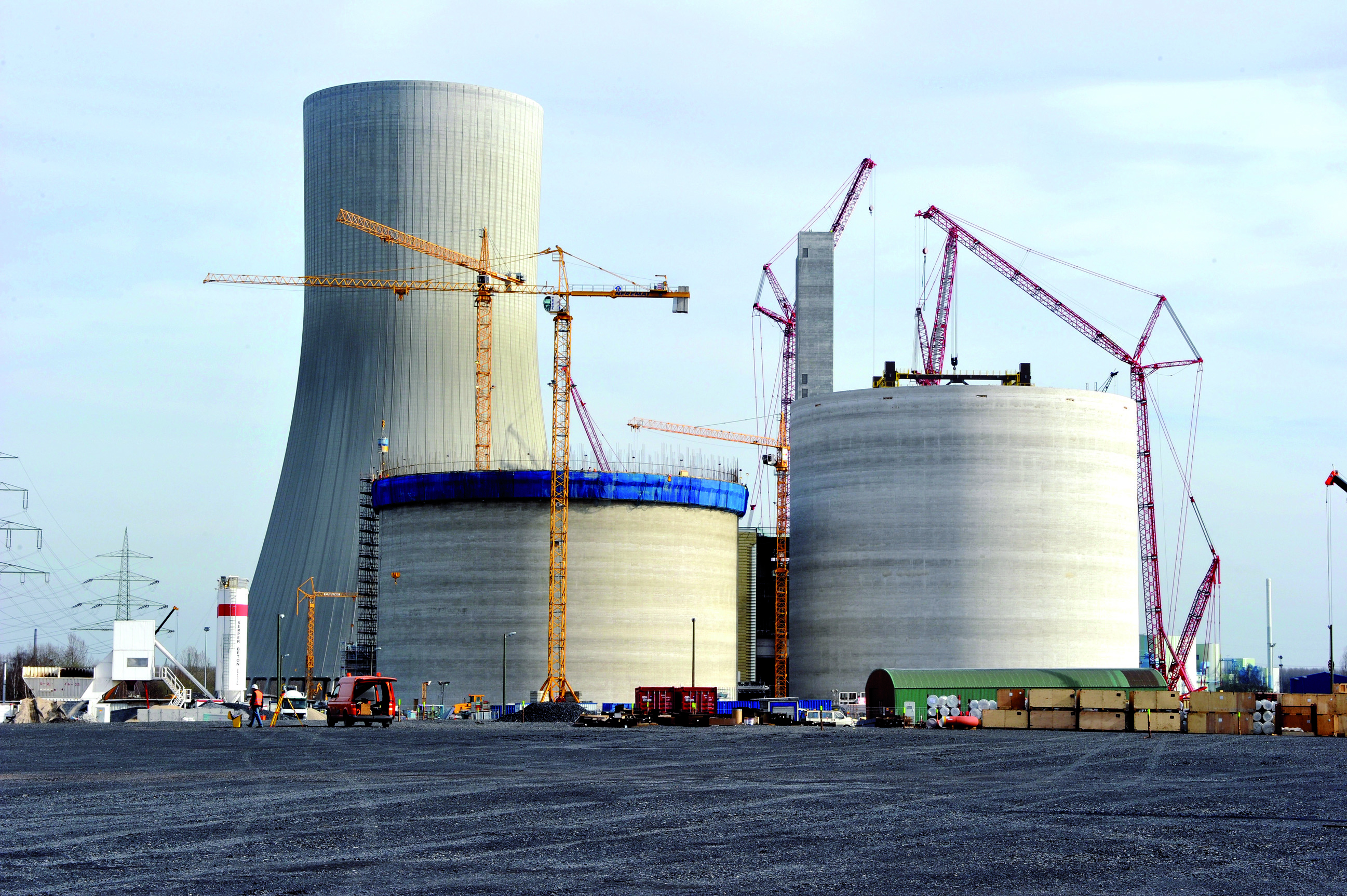 Slipform Bitschnau Silo